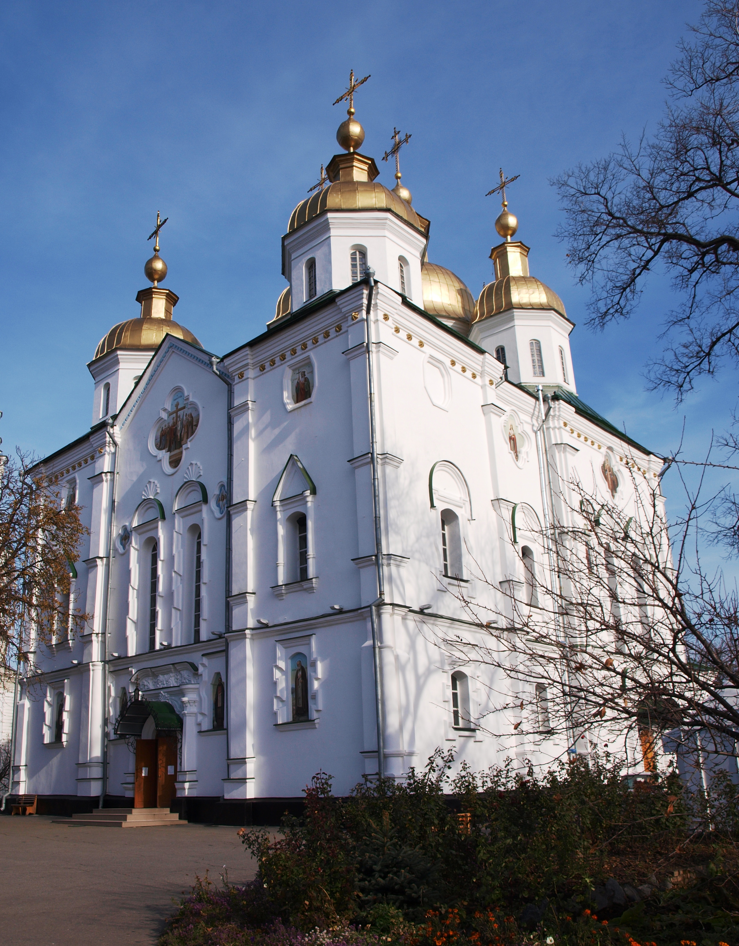 Krestovozvizenskiy monastery in Poltava Ukraine